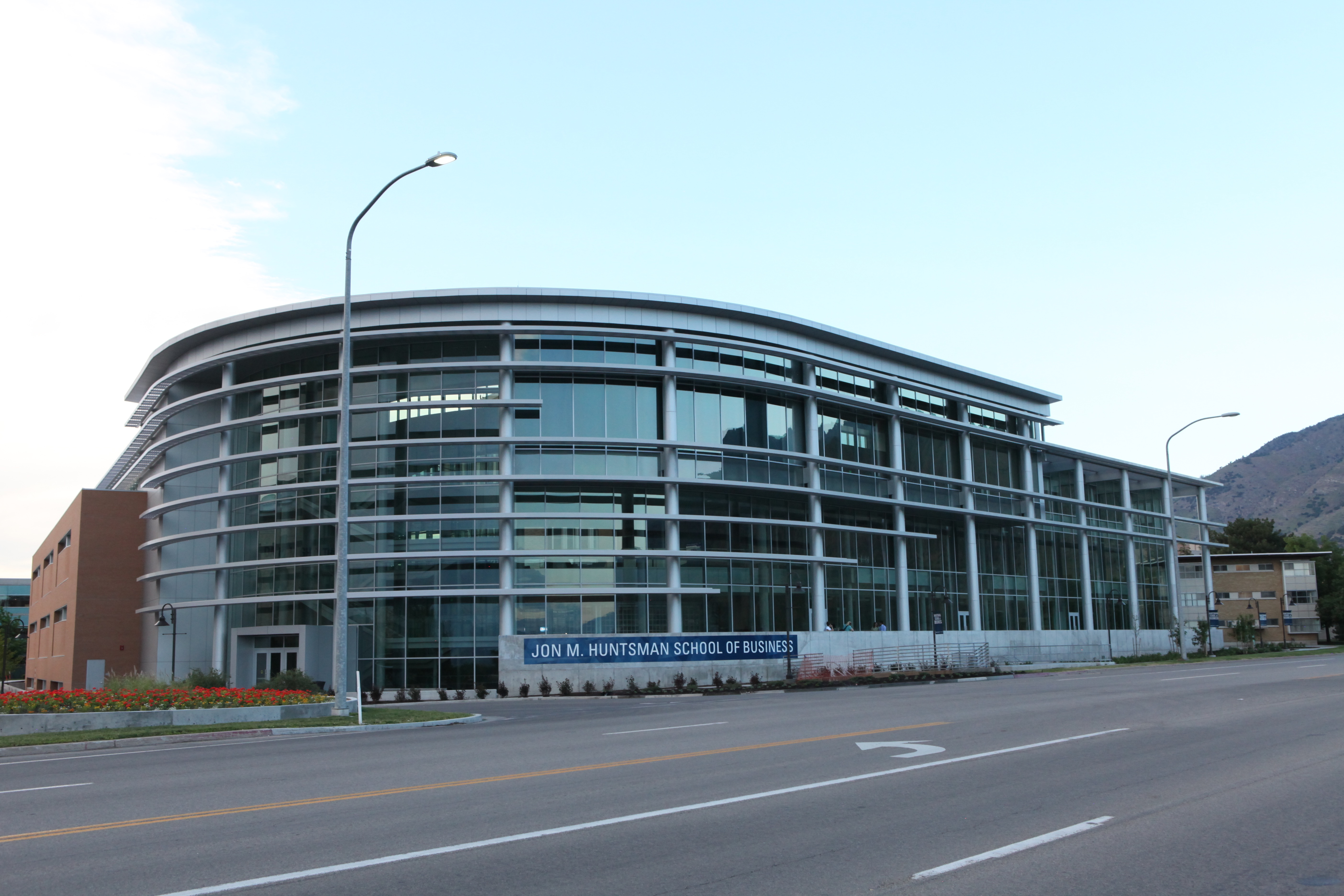 This is the south-facing facade of the Jon M. Huntsman School of Business buiding.